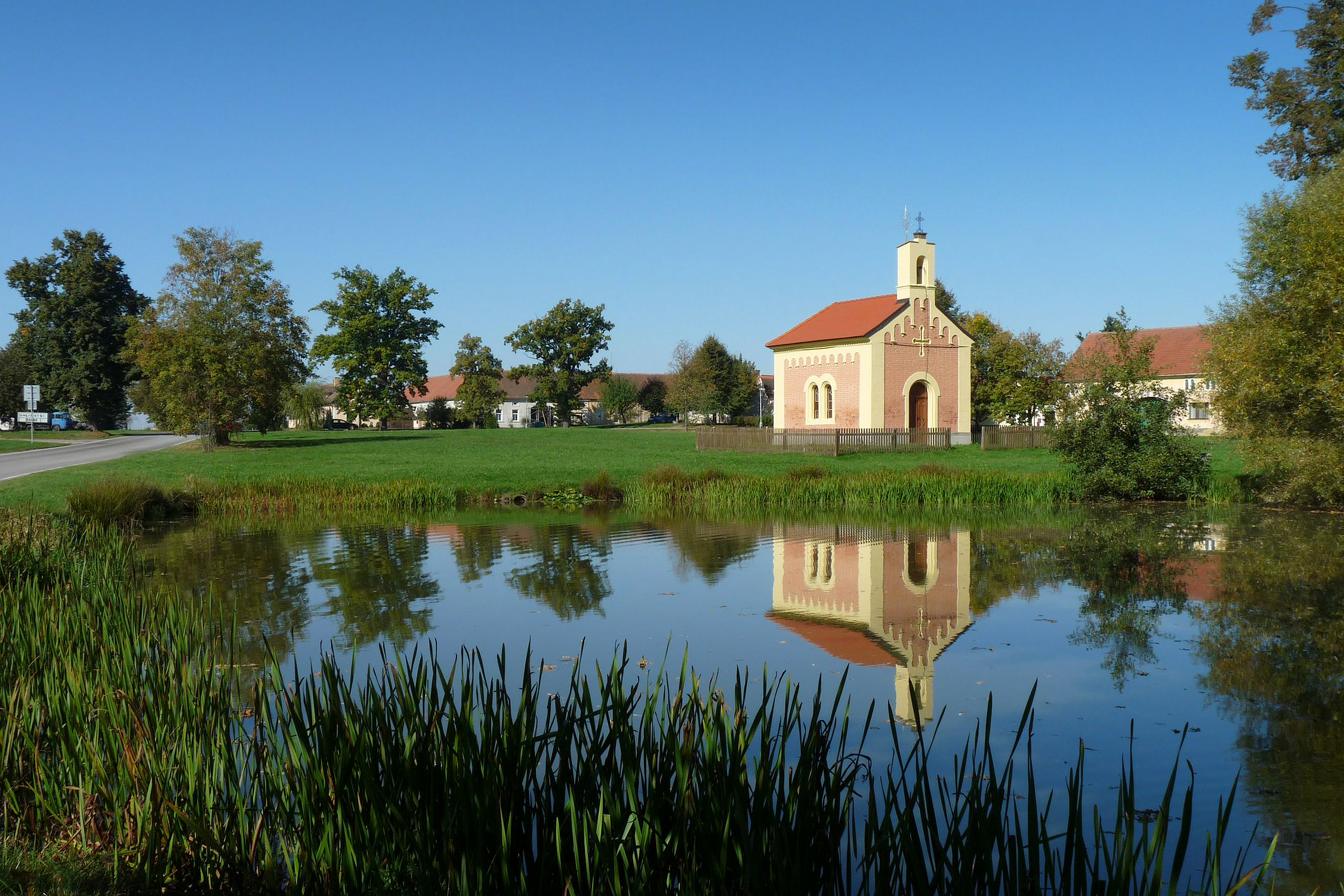 Chapel and pond in the village of Munice, part of the town of Hluboká nad Vltavou in České Budějovice District.